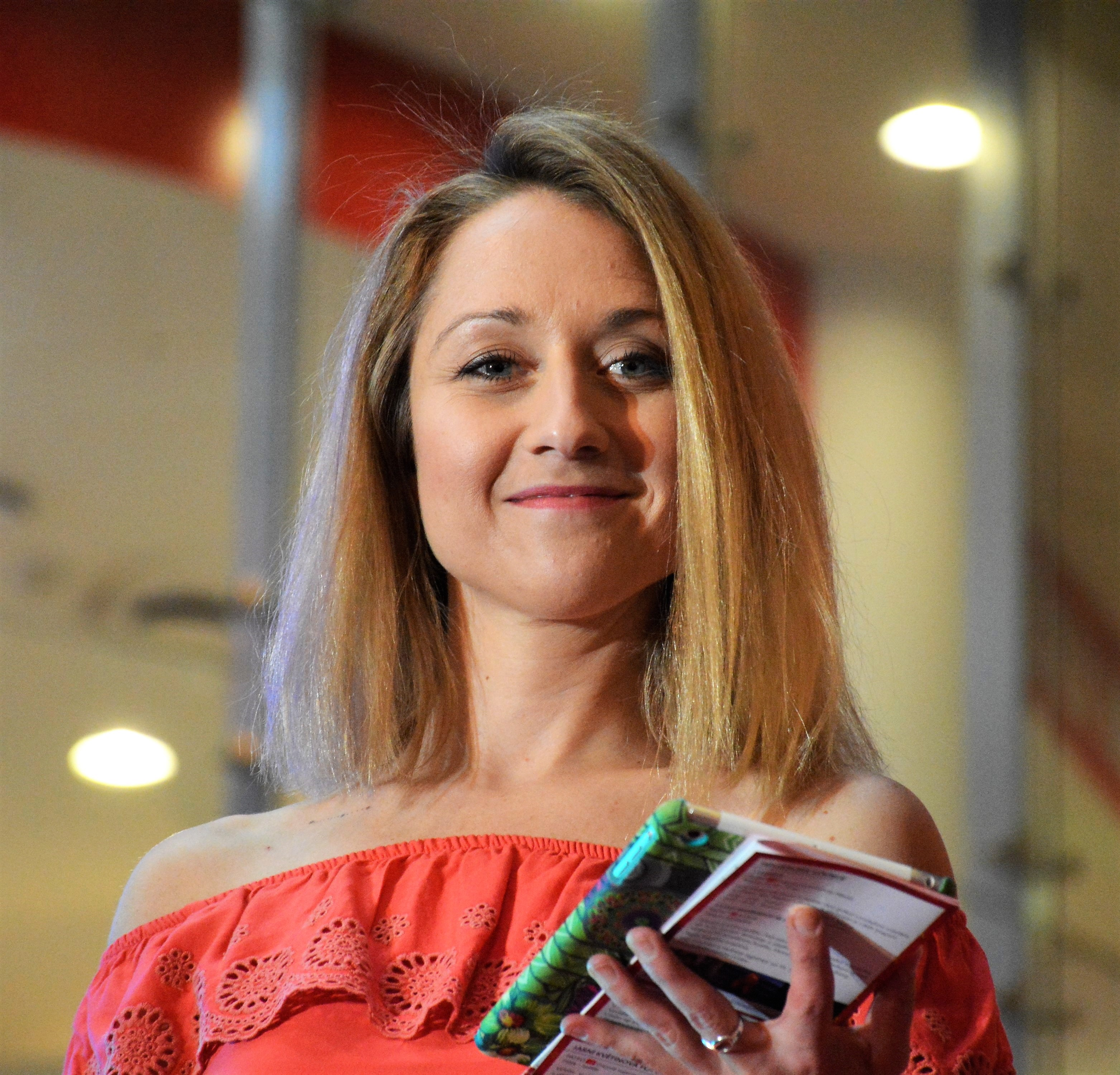 Tereza Tobiášová, Czech presenter